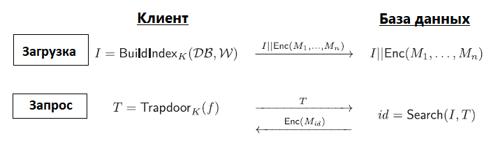 model of a blind index usage